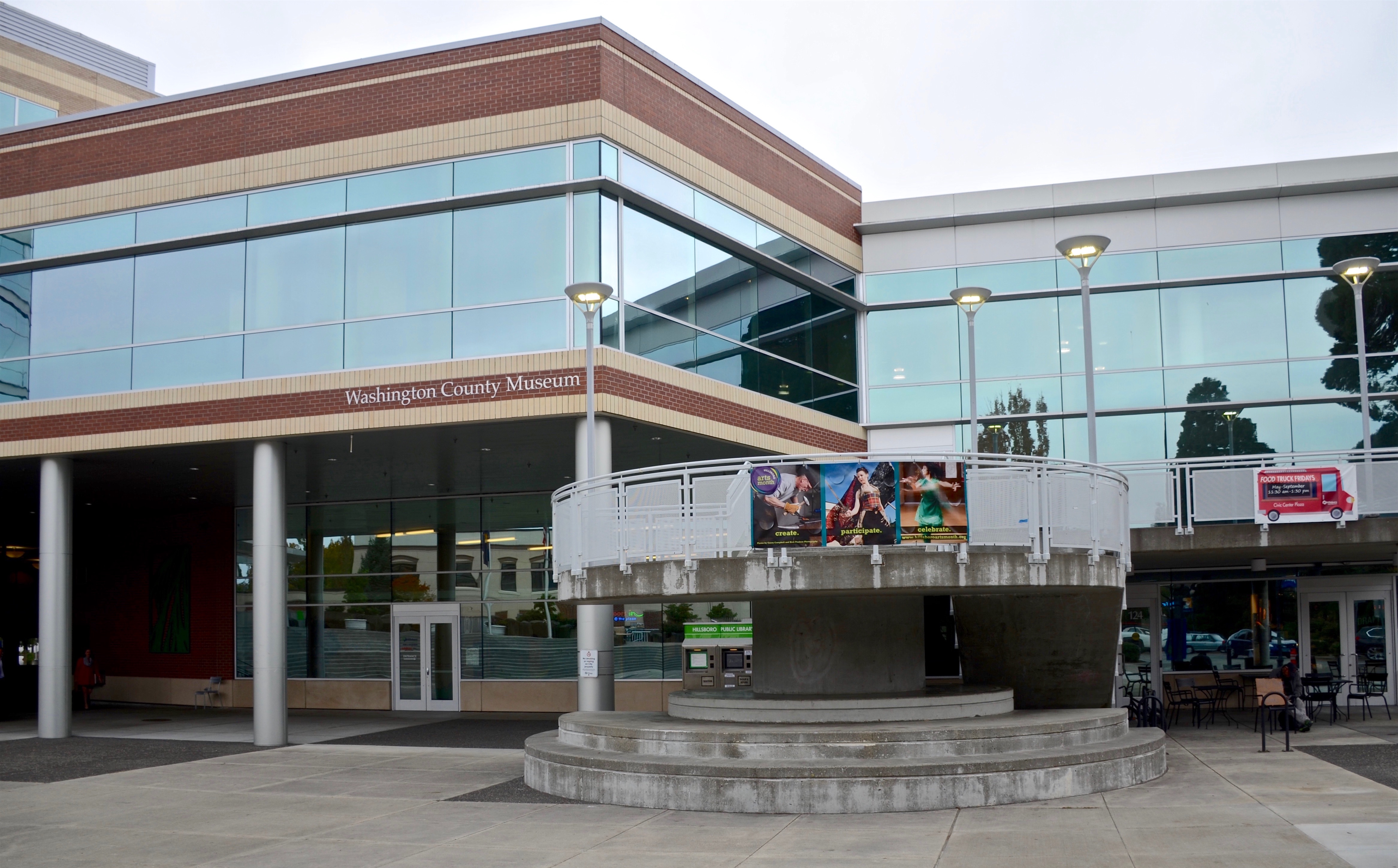 The exterior of the Washington County Museum, when it was located on the second floor of the Plaza Building, at Hillsboro Civic Center (immediately north of, and adjoining, the City Hall Building, also part of the Civic Center), in downtown Hillsboro, Oregon. The lettering "Washington County Museum" is visible on the building. The museum moved to this location from the Rock Creek campus of Portland Community College in 2012, but moved back to PCC in October 2017. (At the time of this photo, the museum was in the process of moving and was not open at either site.)